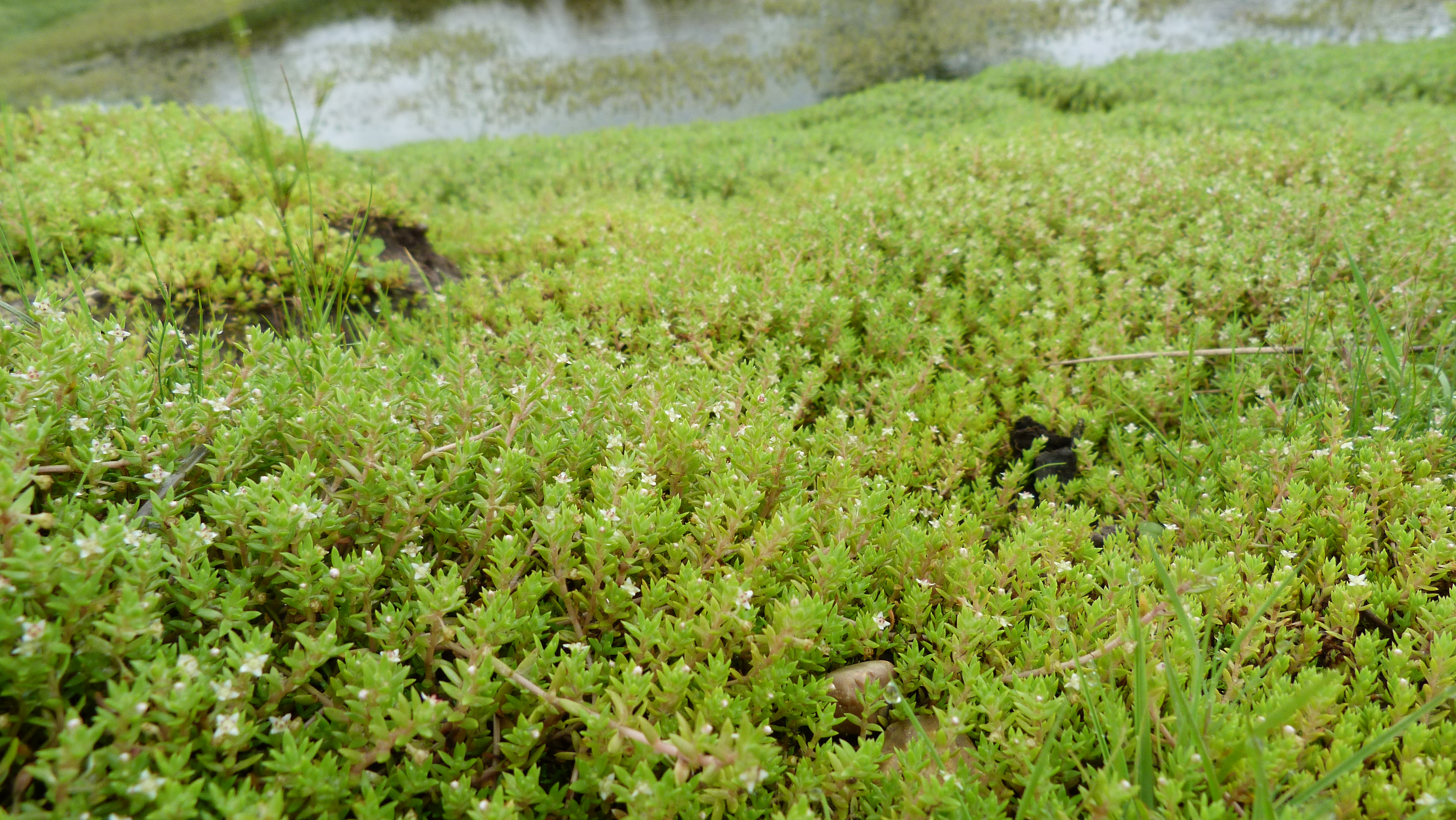 Crassula helmsii